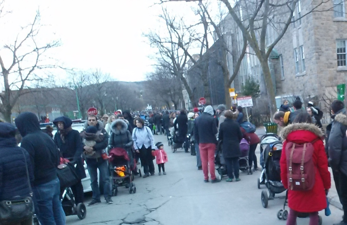 French expats – in long lines on the Dollard Boulevard (ca. 100 feet from the corner with Van Horne Avenue) – are waiting to vote in the presidential election, on April 22, 2017. Voters living in the Americas headed to the polls on Saturday. The queue is outside of the Stanislas School in Montreal's Outremont borough, where 24 polling stations were organized. Of the 85,000 eligible French voters in Canada, more than 57,000 were registered to vote here. Results from ballots remained sealed until polls closed in mainland France.